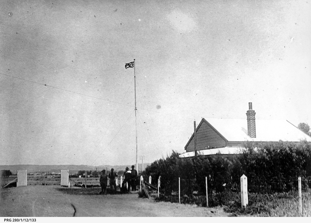 Premises of the powder magazine office at Dry Creek, South Australia No known copyright restrictions Items on the State Library of South Australia catalogue designated as having 'no known copyright restrictions': have no known cultural sensitivities, and are out of copyright under Australian copyright law, or in copyright, but copyright is owned by the State Library of South Australia with unreserved use by State Library customers , or in copyright, but the copyright owner has freed them for unreserved use by State Library customers. Conditions of use Permission to use such items for any purpose, including publishing, is not required from the State Library however, the following conditions must be adhered to: Acknowledgement of the State Library is required to use this material for any purpose. Acknowledgement should include the phrase State Library of South Australia - followed by the Library's unique identifying number such as B 3456, PRG 1218/3 or OH 456/1. More information about citing material from the State Library's collection can be found on the page 'Acknowledging your State Library of South Australia sources'. If the catalogue record indicates additional conditions of use, such as those imposed by donors, then these must also be met. The State Library does not endorse or support derogatory use of any item from its collection. Re-publishing of an item does not create a new copyright in this item.